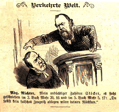 World in Reverse: Eugen Richter delivers a sermon to Court Preacher Stoecker about being truthful. From: Berliner Wespen, June 8, 1881.